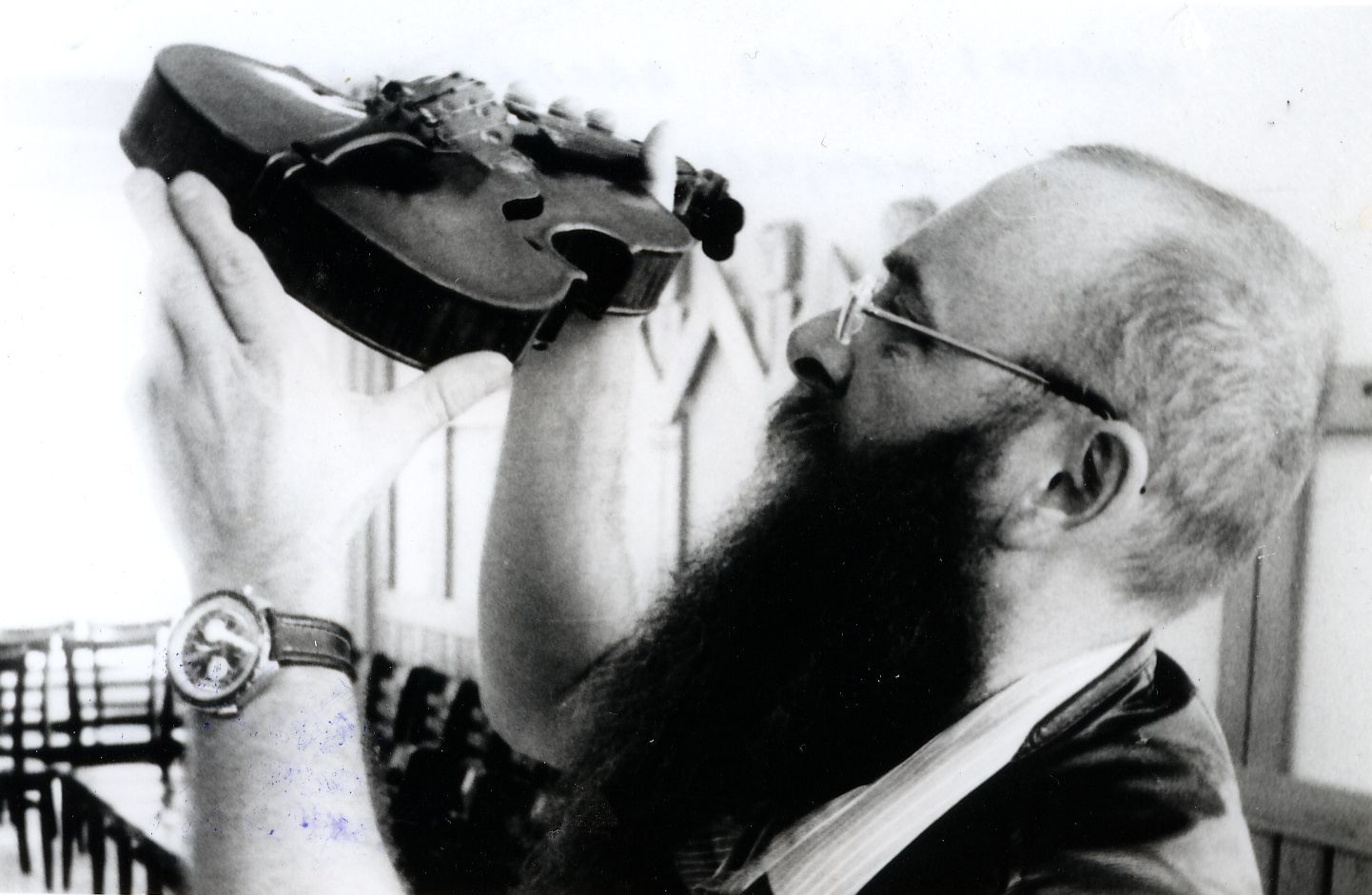 János Márkus Barbarossa (sometimes János Márkus-Barbarossa, originally János Márkus) (1955–) Hungarian poet, writer, musical instrument maker, antique dealer, literary organizer